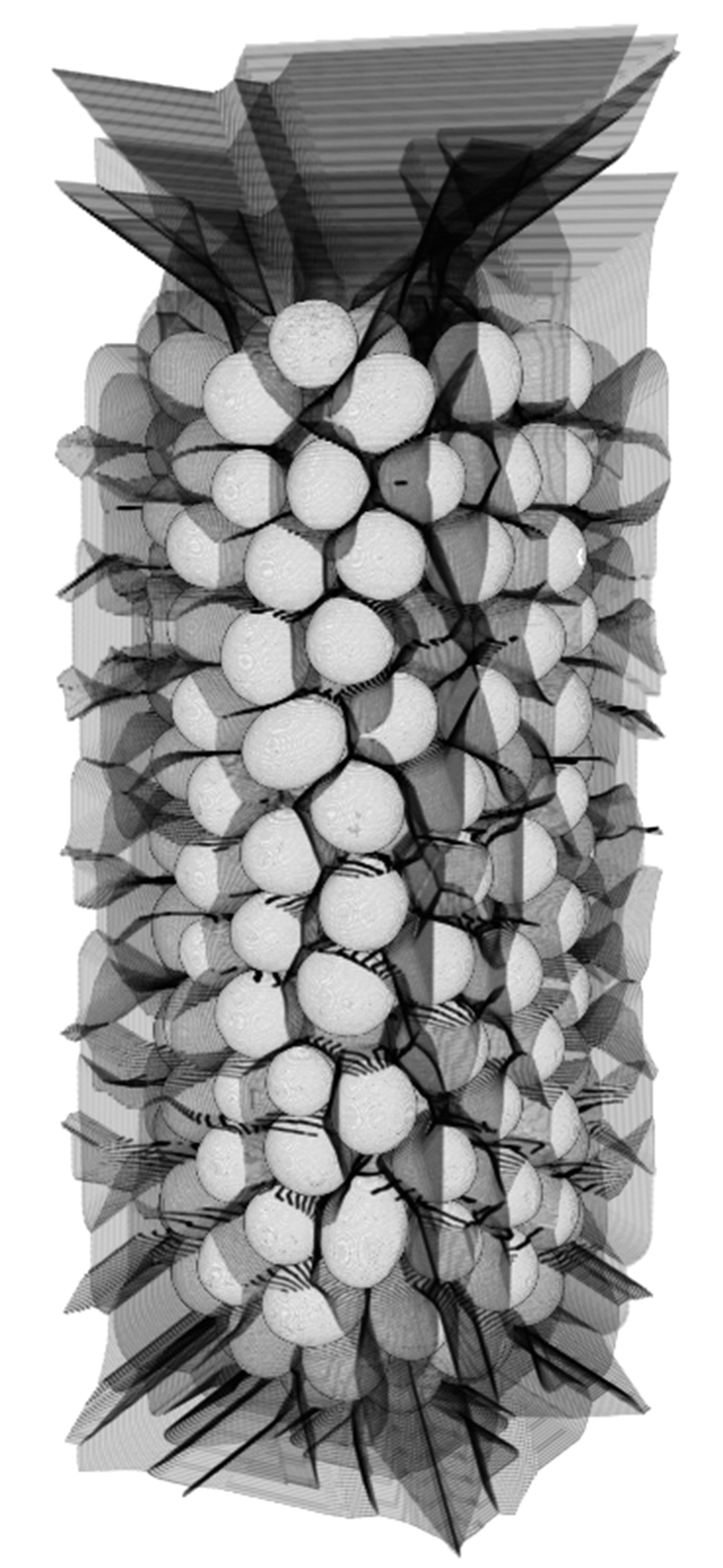 Superimposed watershed segmentation lines (black) on a population of "touching" pellets calculated a marker-supported watershed transformation.